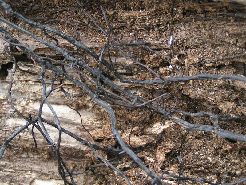 Rhizomorphs of Honey fungus, unidentified Armillaria species (Physalacriaceae, Agaricales)